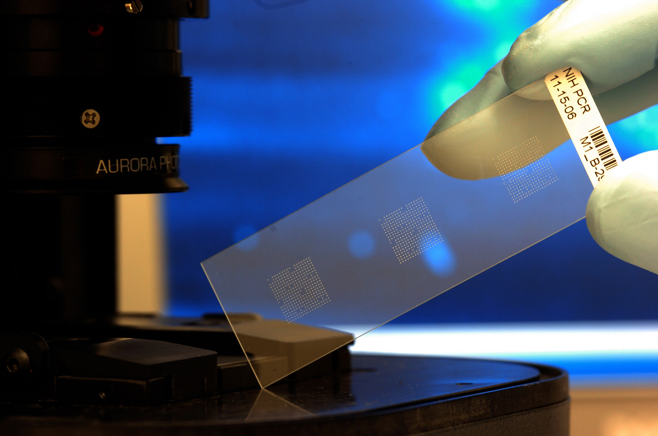 The following is the author's description of the photograph quoted directly from the photograph's Flickr page."Each biochip has hundreds to thousands of gel drops on a glass, plastic or membrane support. The biochip system can identify infectious disease strains in less than 15 minutes when testing protein arrays and in less than two hours when testing nucleic acid arrays. Read the full story."